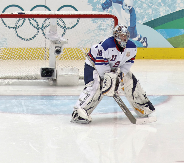 United States goaltender Ryan Miller watches the action against Canada during the 2010 Winter Olympics